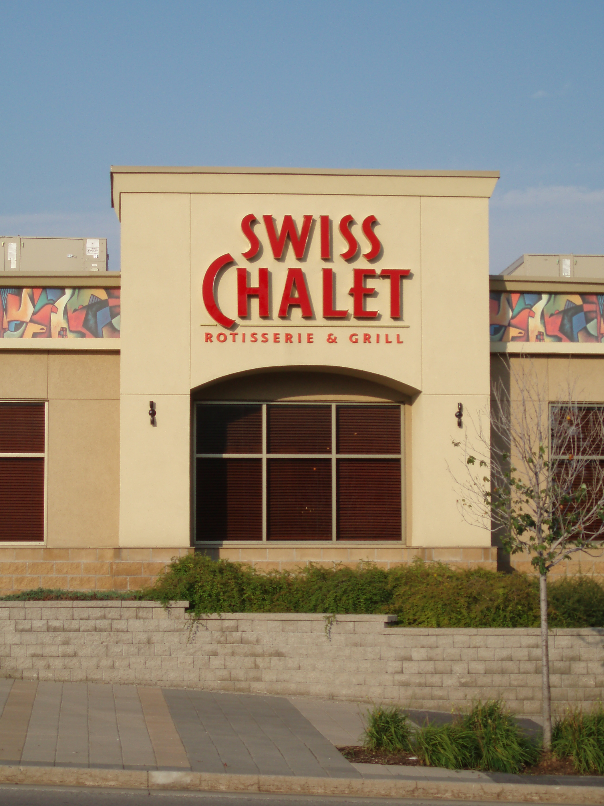 Swiss Chalet, Hwy 7 East, Markham